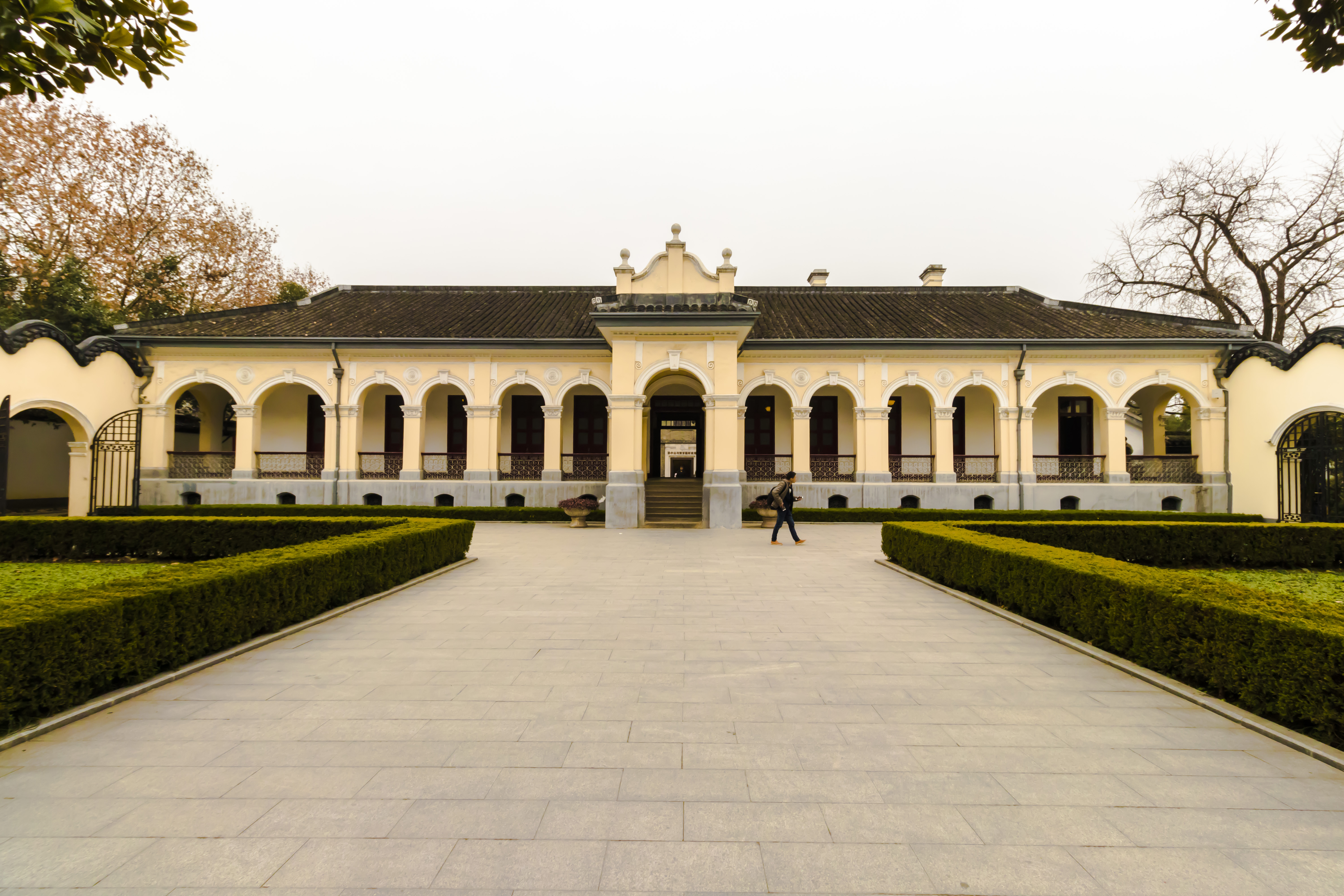 The West Garden Hall, Nanjing, once served as the provisional presidential office